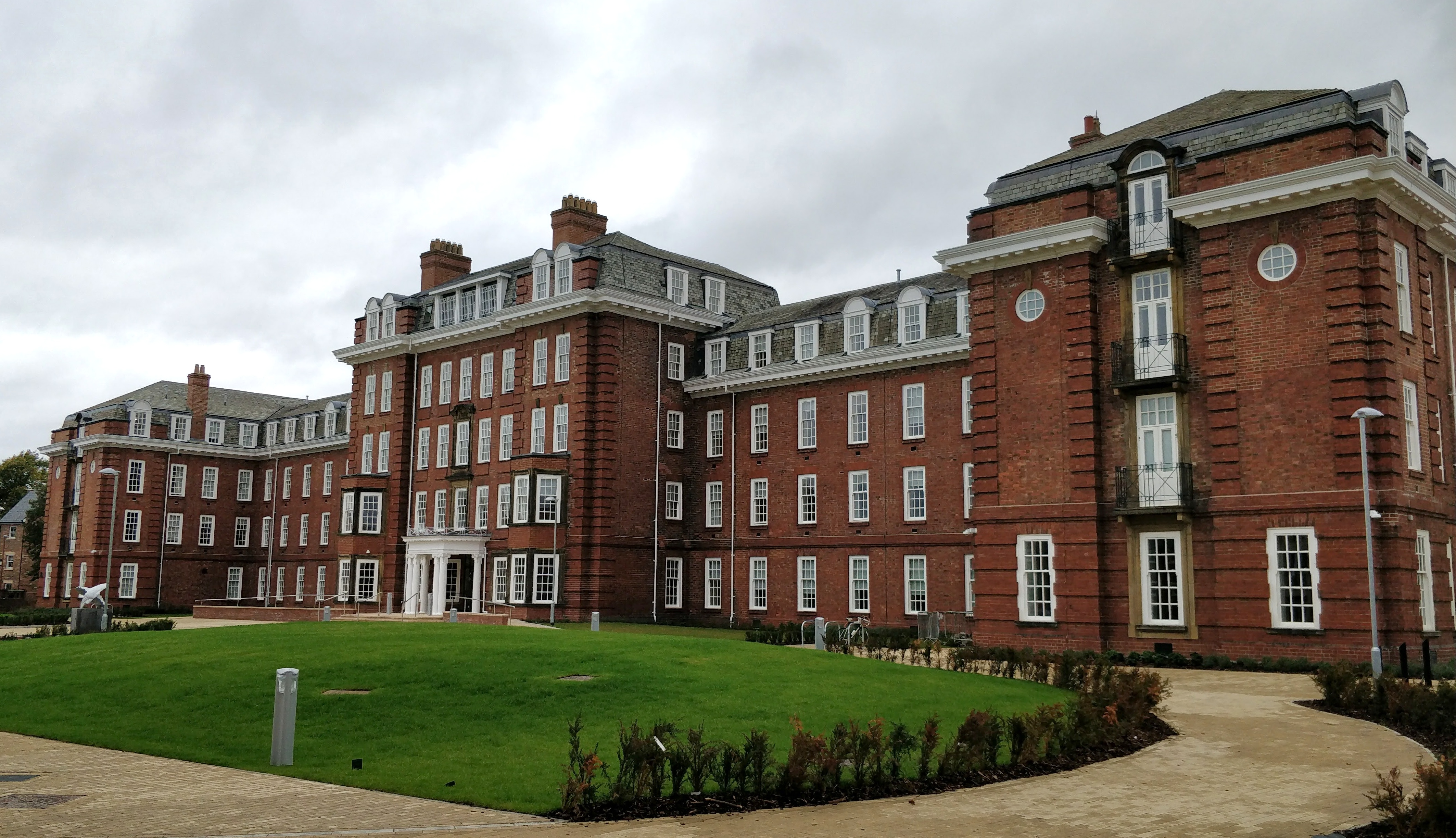 Sheraton Park, the home from 2017 of Ustinov College, Durham University. Formerly Neville's Cross Teacher Training College.